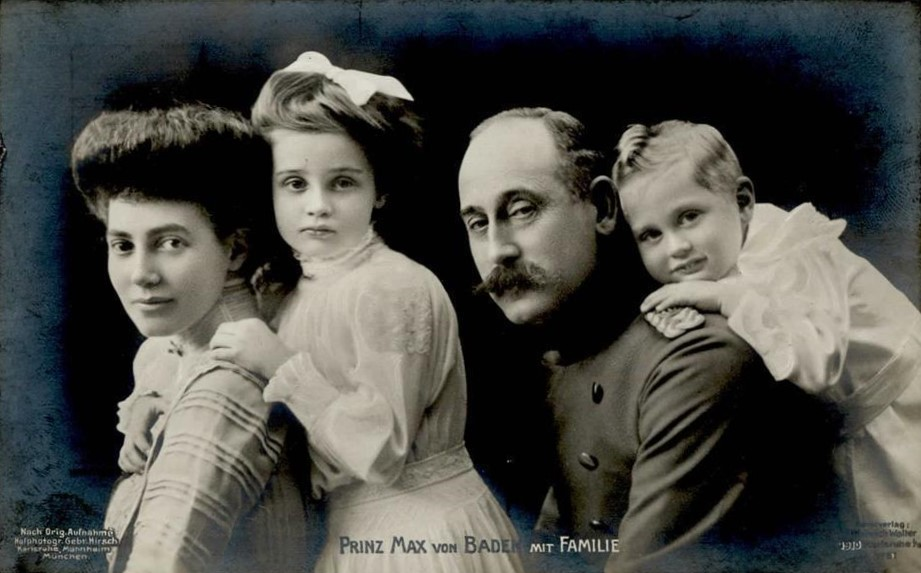 Prince Maximilian of Baden and Princess Marie Louise with their children